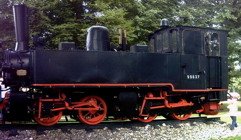 German steam locomotive 99637 on the terrain of the former Buchau station, a stop on the Federseebahn